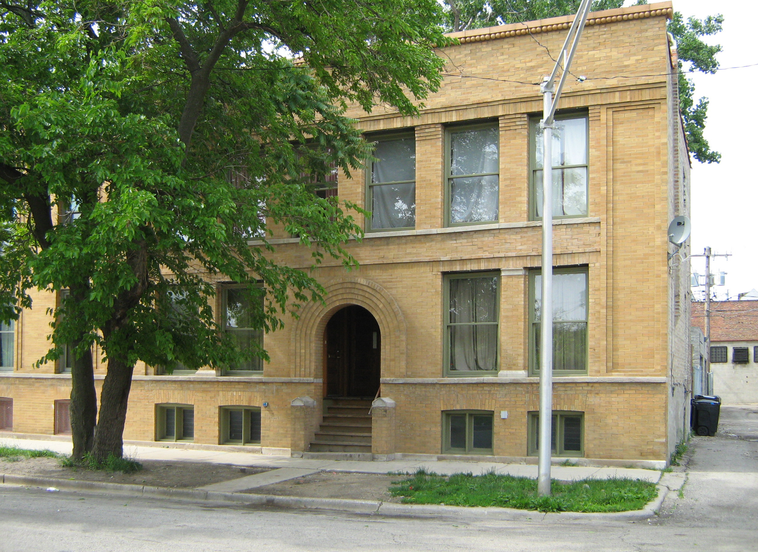 Edward C. Waller Apartments (1895); eastern-most of five units. 2840-58 W Walnut St Chicago, IL 60612 Architect: Frank Lloyd Wright